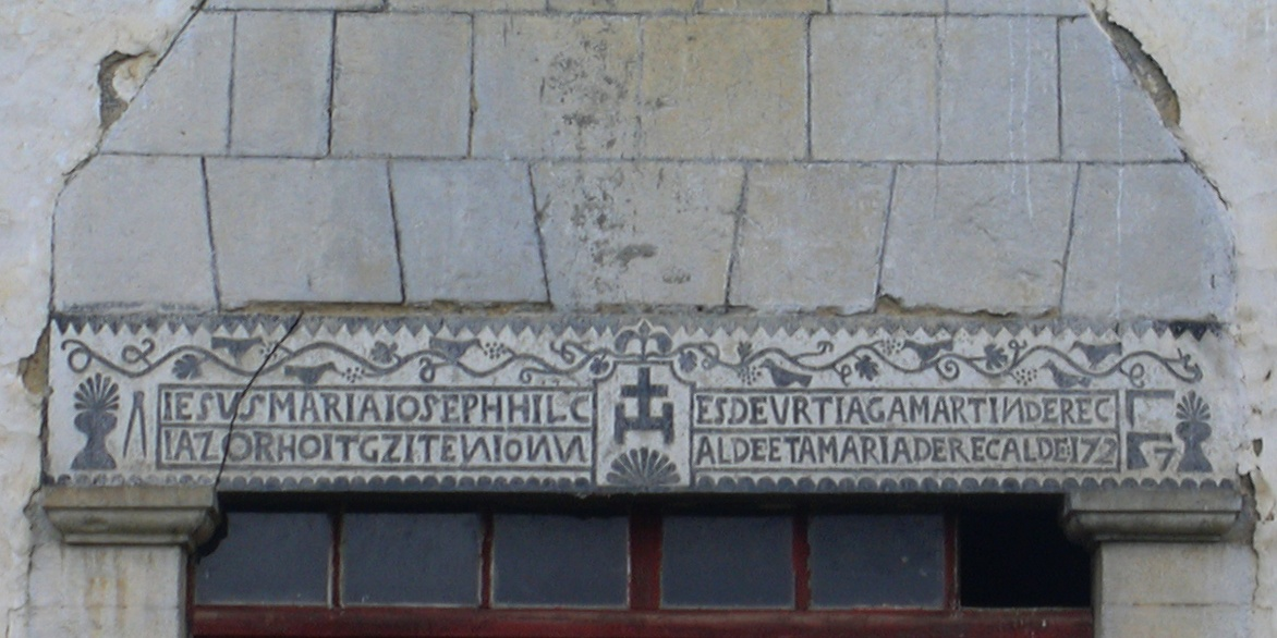 Atalburu in Mandoz, Jaxu, Lower Navarre, French Basque Country. Own work, 2002.